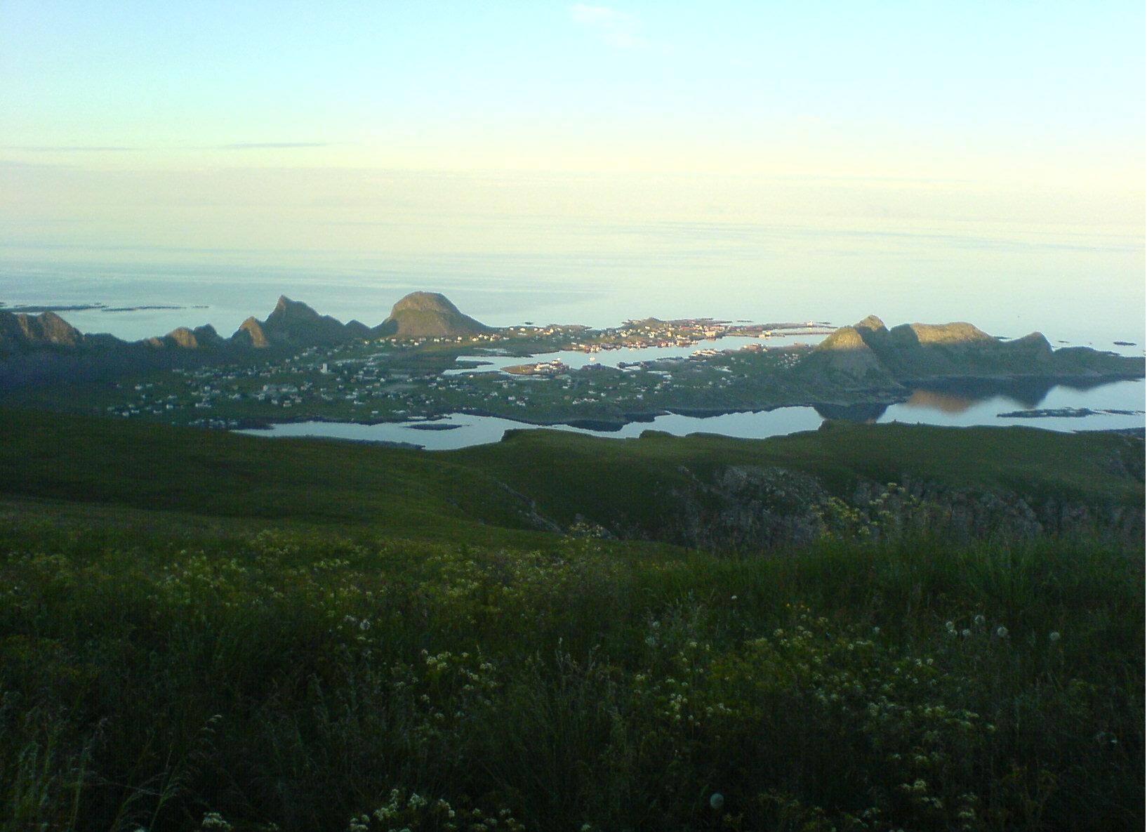 Picture of Sørland, Værøy. The author is me, Jostein Torstensen.